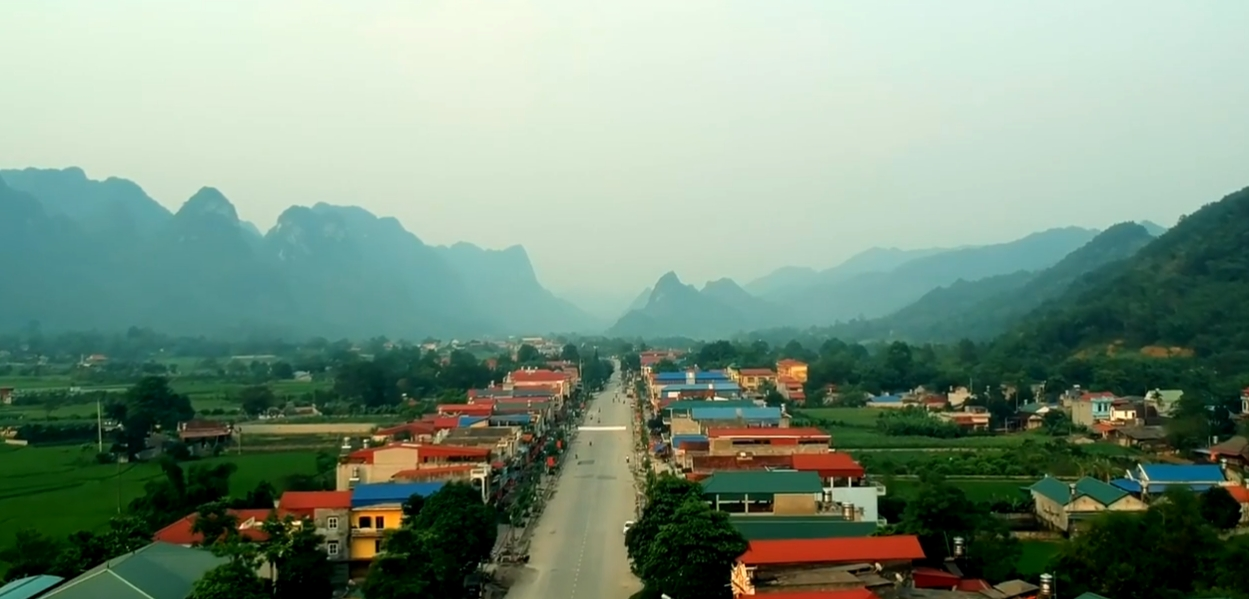 Thitrandinhca